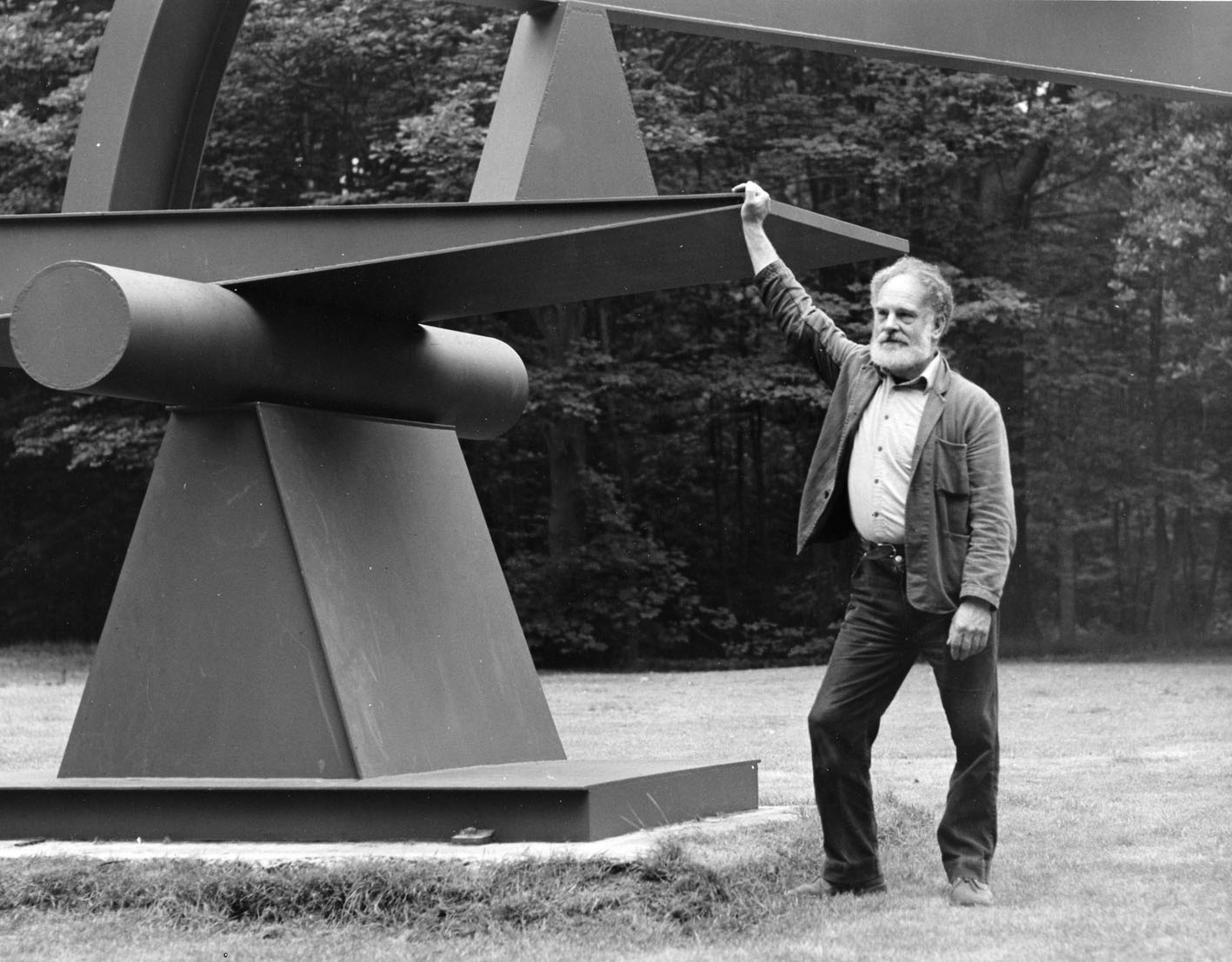 16'6" X 22' 3". Fabricated by Kitchin at the Appelby-Frodingham Steel Works, Scunthorpe and sited at Normanby Country Park.